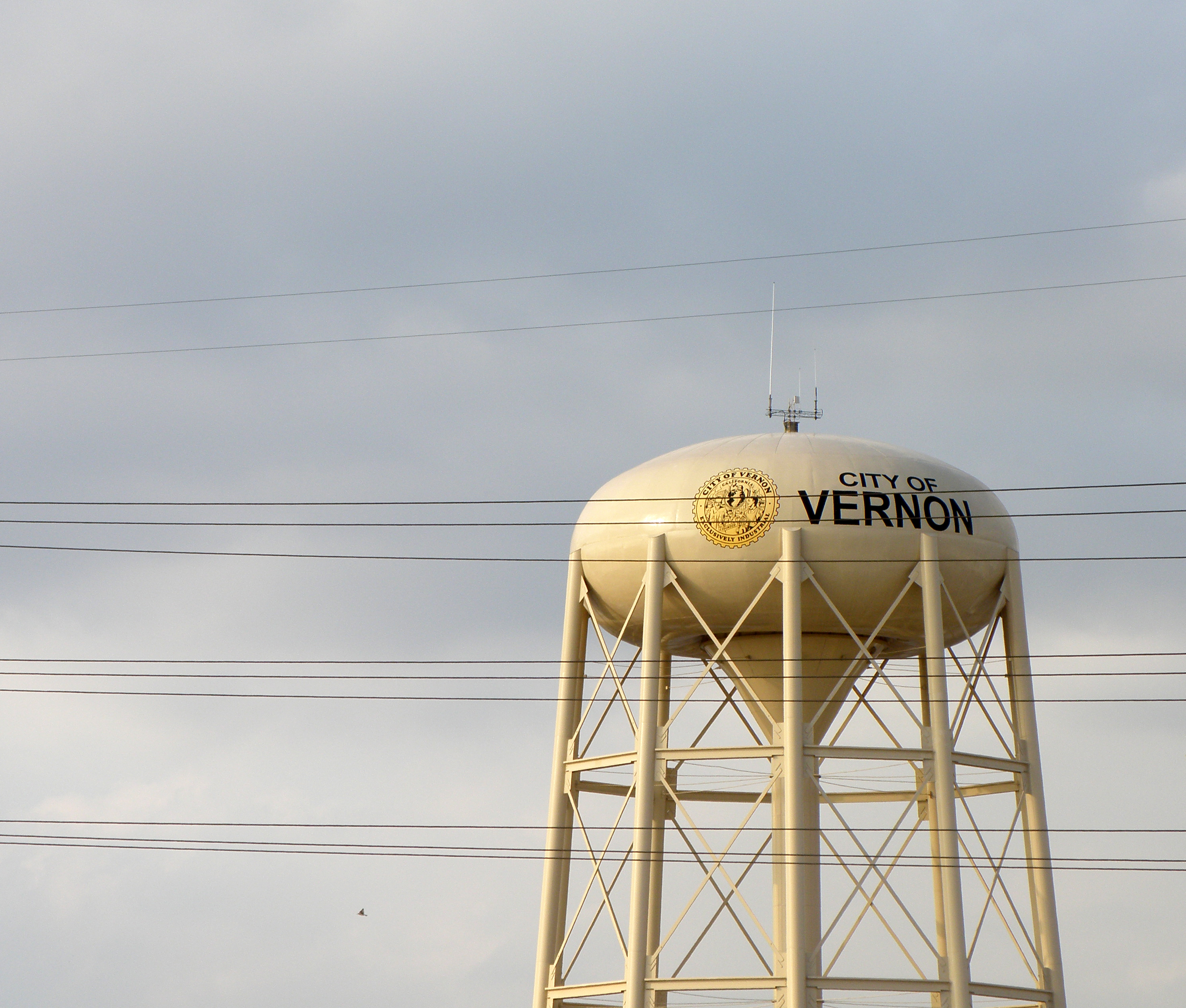 The municipal water tower in Vernon, California.